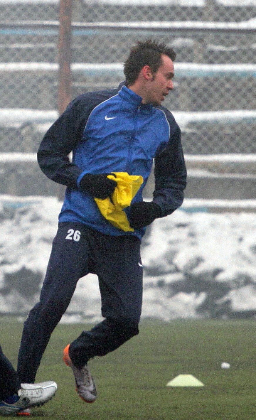 Kalin Shtarkov (Bulgarian: Калин Щърков) (born on 20 May 1984) is a Bulgarian footballer currently playing for Levski Sofia.